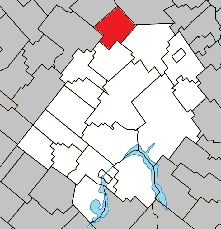 Location of Saint-Jacques-de-Leeds, Quebec within Les Appalaches Regional County Municipality.